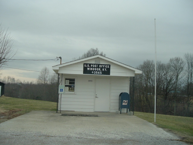 Picture of the Windsor, KY post office. Uploaded by Jeffrey B. Morris on March 28, 2006, the year of the dog. All rights are released to the public.